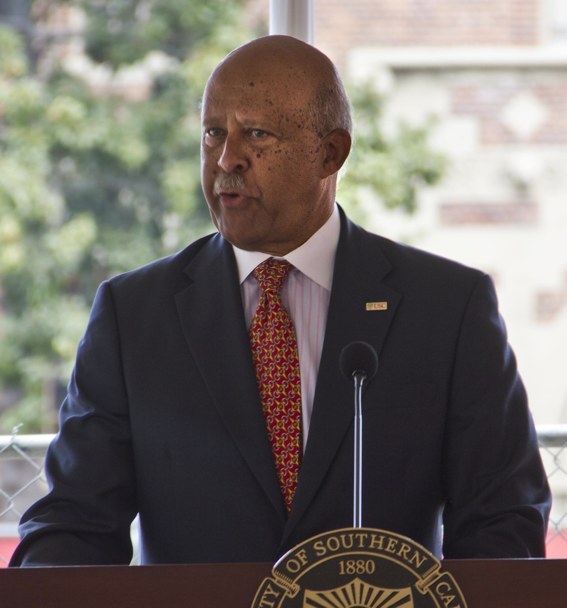 Ernest J. Wilson III, dean of the Annenberg School for Communication and Journalism at the groundbreaking ceremony for the Wallis Annenberg Hall at USC on November 8, 2012. (Rosa Trieu/Neon Tommy)